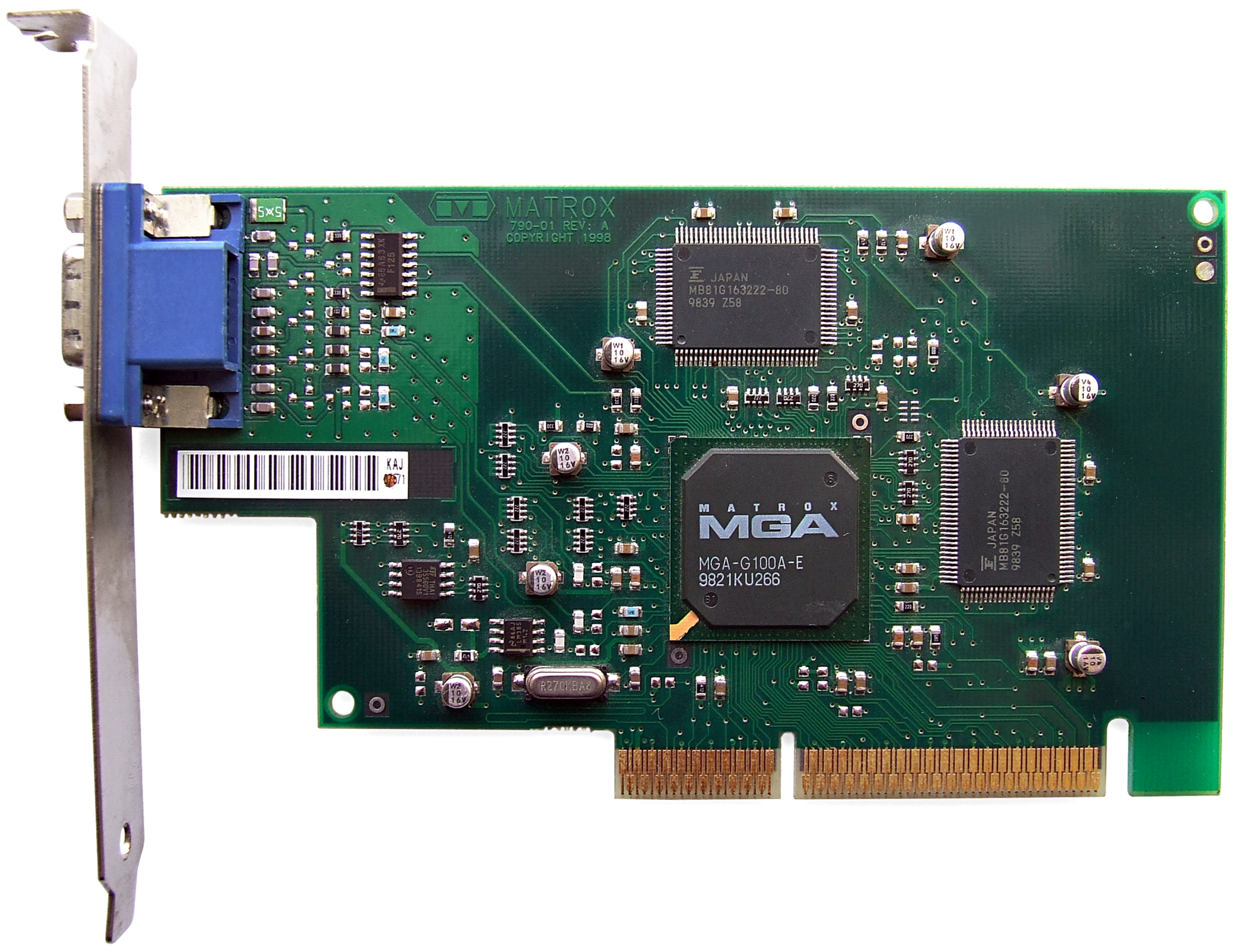 Matrox Productiva G100 (G100A/4BI/20) video card, PCB revision 790-01A. It is based on the MGA-G100A-E graphics processing unit and equipped with 4 MB of SGRAM.